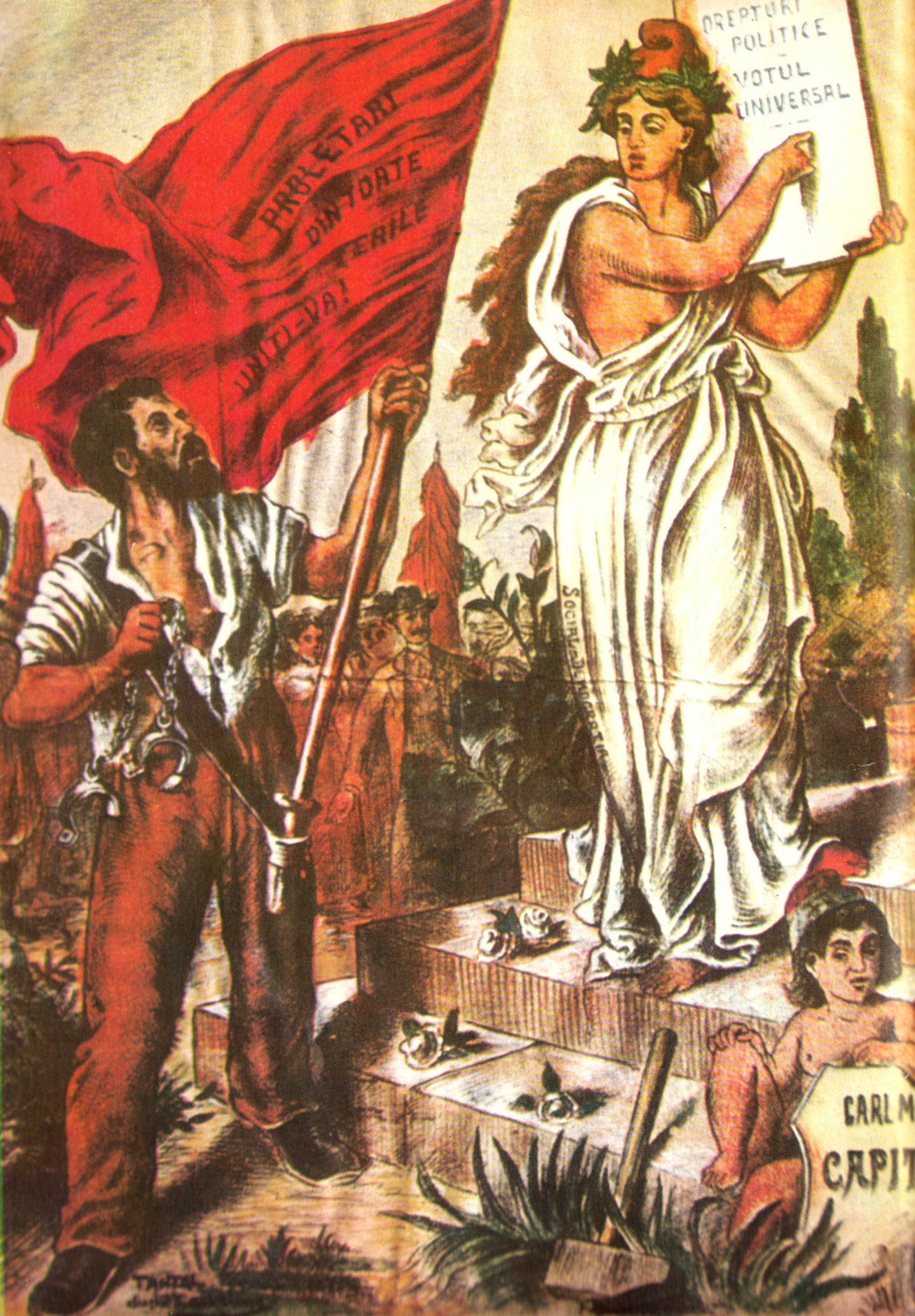 Dezrobirea Muncitorilor ("Workers' Emancipation"), socialist chromolithograph in the Romanian magazine Lumea Nouă, 11/1895. An unshackled proletarian, carrying the red flag with the inscription Proletari din toate ţerile, uniţi-vă! ("Proletarians of all countries, unite!"), gazes at an allegorical female figure, Social-Democraţia ("Social Democracy"). She holds up a tablet marked: Drepturi Politice - Votul Universal ("Political Rights - Universal Suffrage"). The naked child in the foreground holds up a crest marked Carl Marx - Capitalul ("Karl Marx - Das Kapital). The work is probably adapted from a non-Romanian source, credited under Tantal's signature: TANTAL după [illegible].